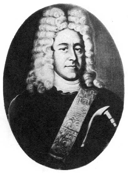 Prince Yuri Troubetskoy 1668-1739